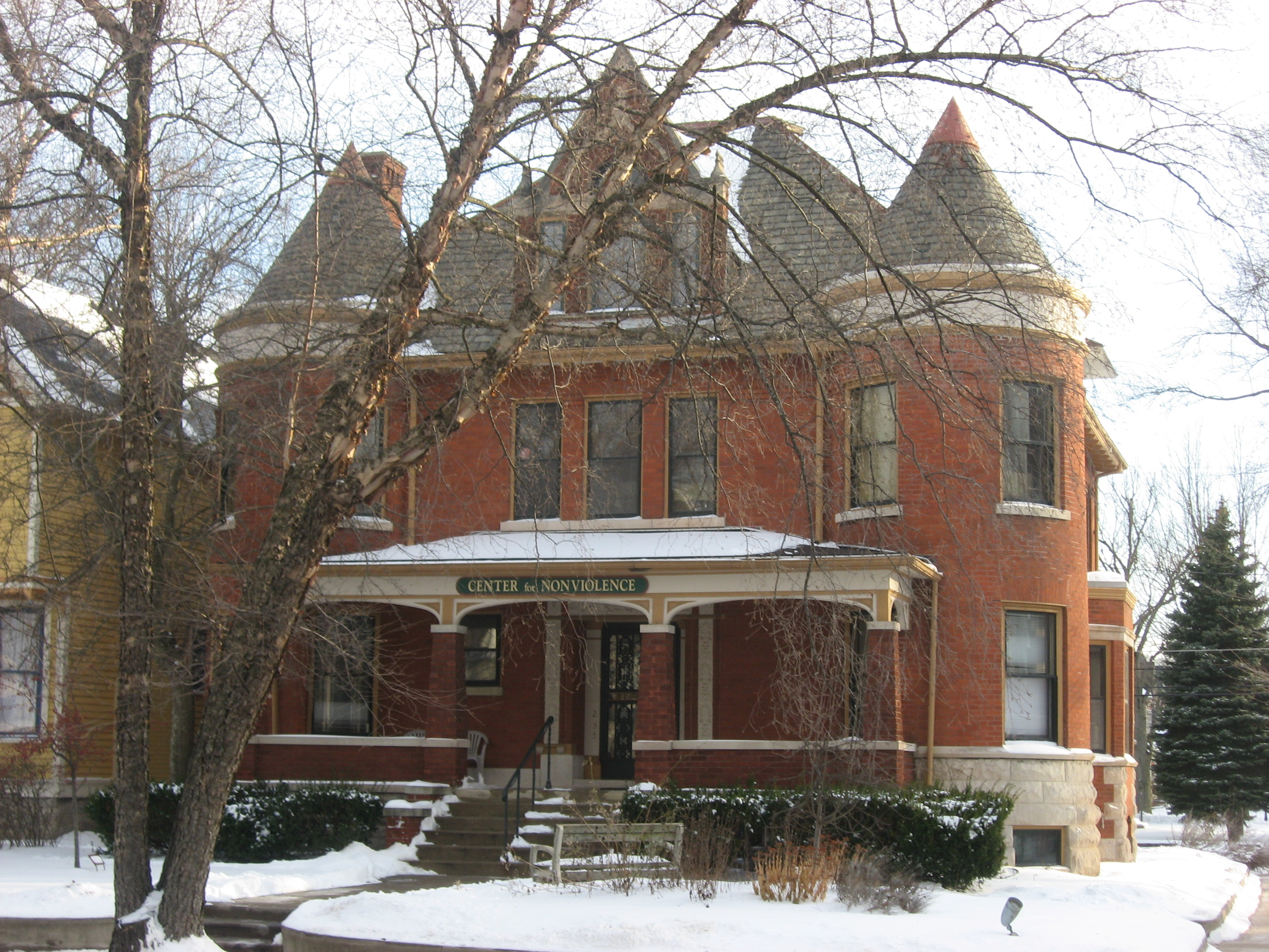 Front of the Harry A. Keplinger House, located at 235 W. Creighton Avenue in Fort Wayne, Indiana, United States. Built in 1893, it is listed on the National Register of Historic Places, and it is part of a Register-listed historic district, the Williams-Woodland Park Historic District.